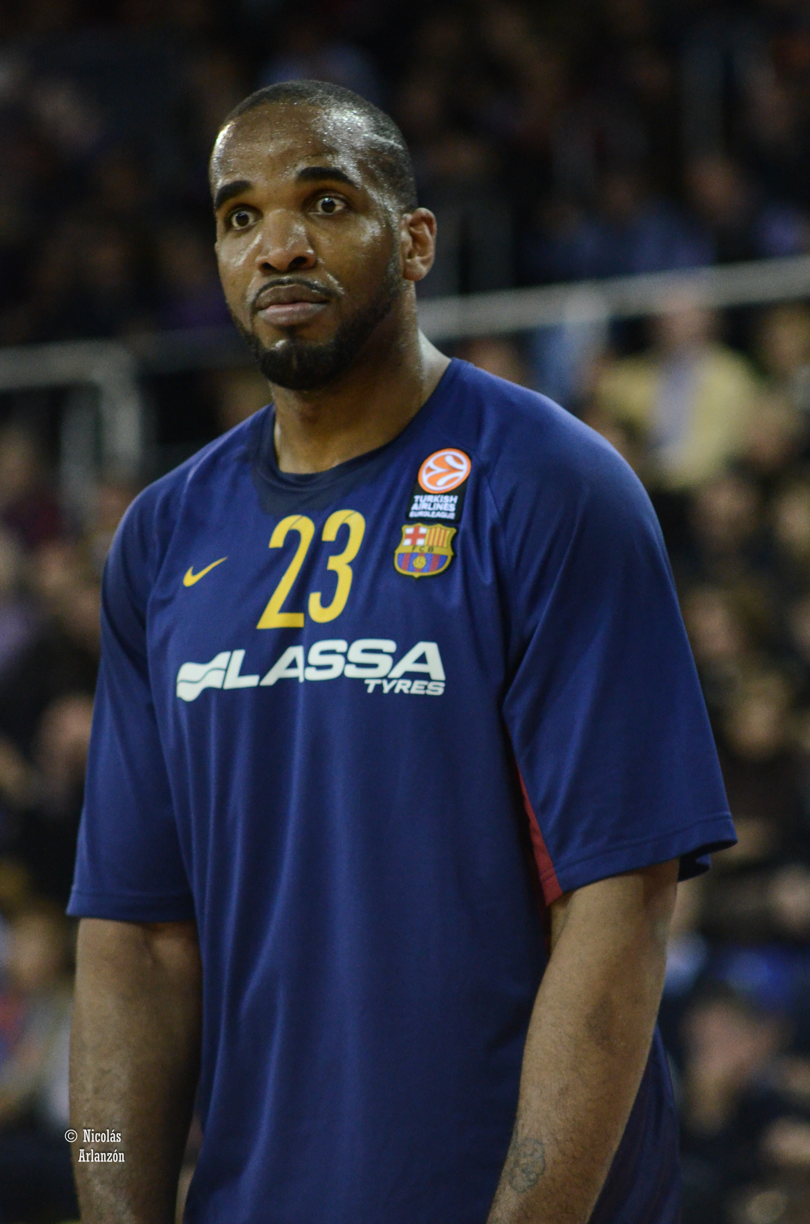 Samardo Samuels playing for Barcelona in an Euroleague match against CSKA Moscow on 12 March 2016